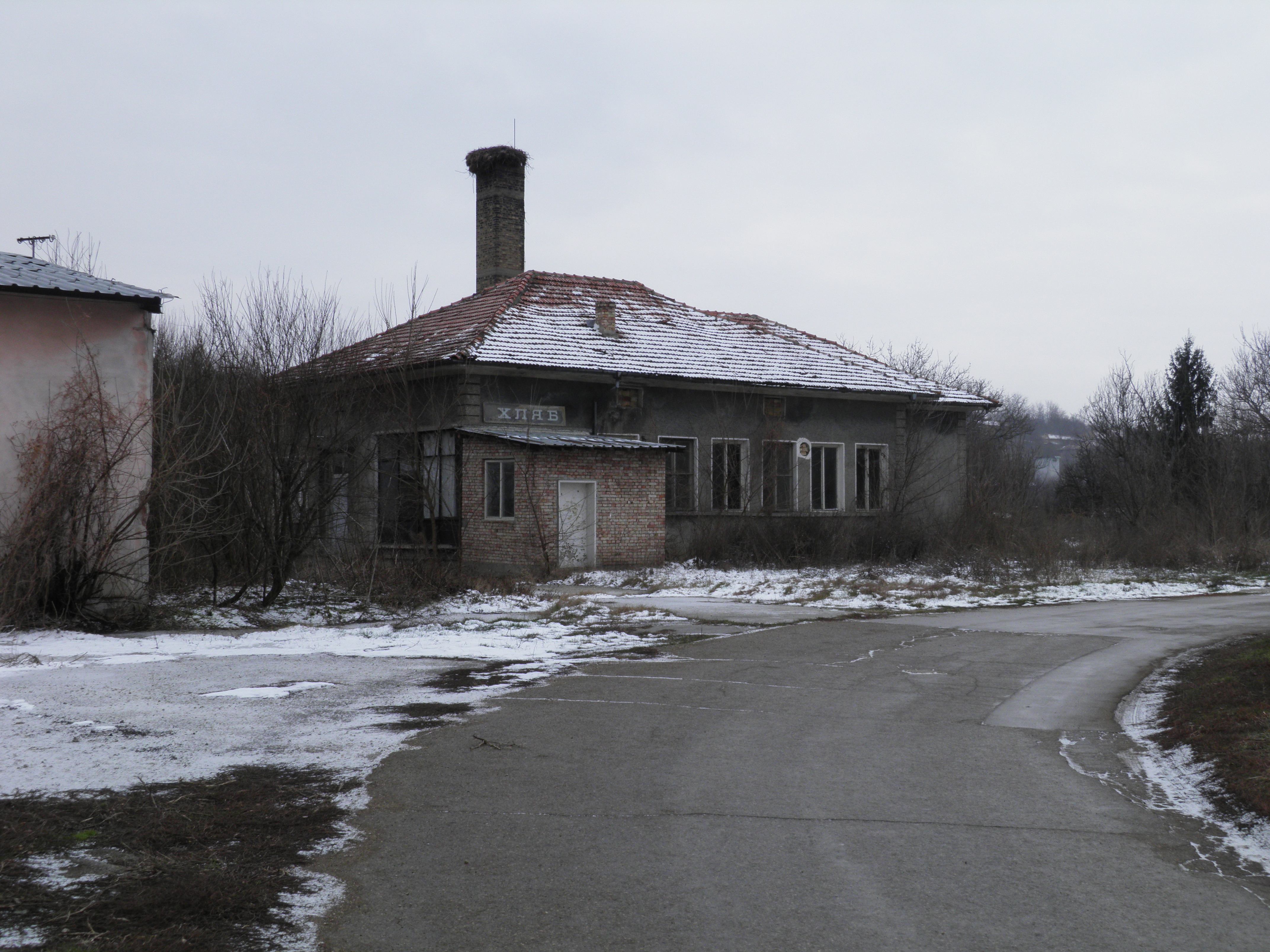 Bakery in Hadzhidimitrovo (village),Bulgaria